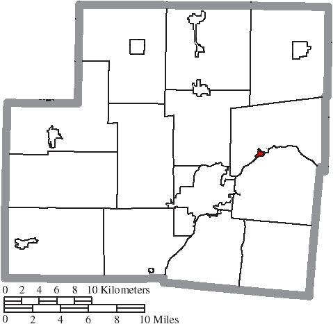 Map of the municipal and township boundaries of Shelby County, Ohio, United States, as of the 2000 census, with the location of the village of Port Jefferson highlighted. Township borders are shown only in unincorporated areas in order to differentiate incorporated and unincorporated areas more clearly.